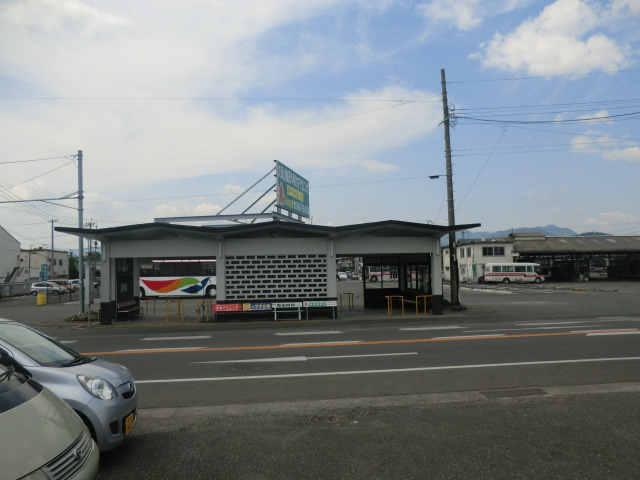 Nishitetsu Bus Kurume Yoshii Branch in Ukiha City, Fukuoka Prefecture, Japan